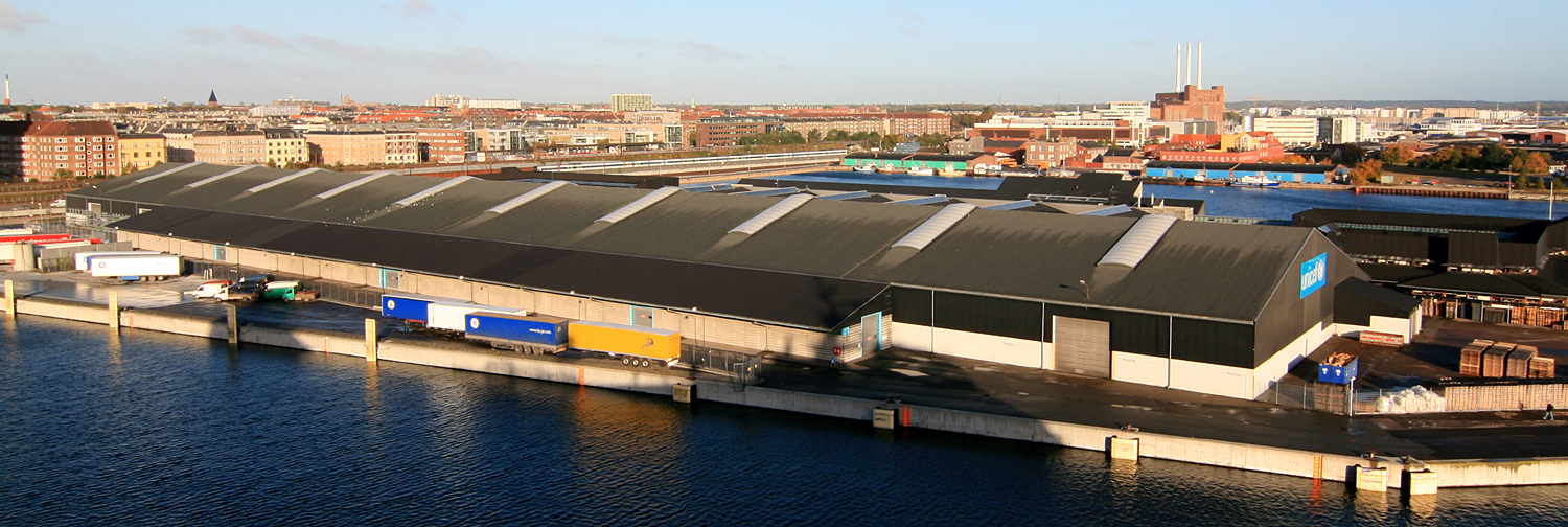 Unipac building, Copenhagen, Denmark.